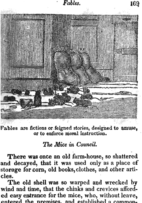 From: J.A. Cummings. The pronouncing spelling book: adapted to Walkers Critical pronouncing dictionary, in which the precise sound of every syllable is accurately conveyed in a manner perfectly intelligible to every capacity, by placing over such letters as lose their sounds, those letters whose sounds they receive. Boston. Cummings, Hilliard, & Co.. 4th ed. (1823)